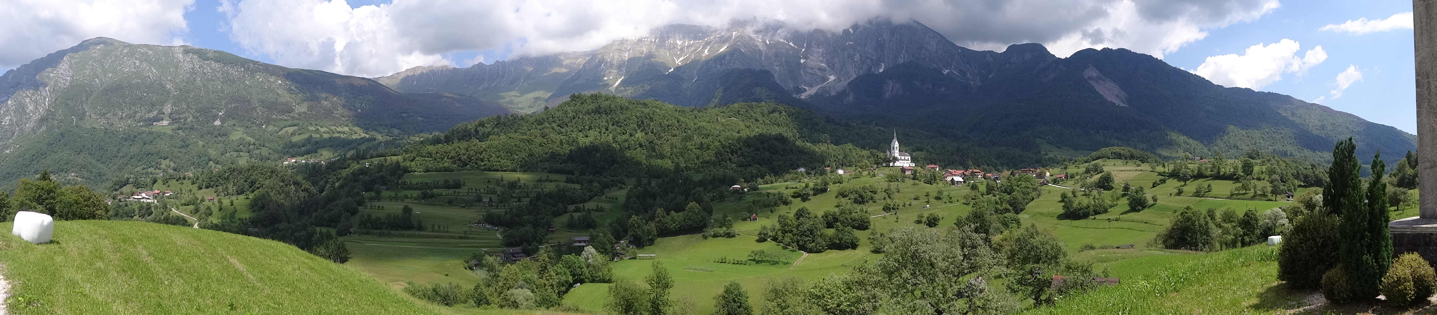 Panorama of Drežnica, Kobarid, Slovenia